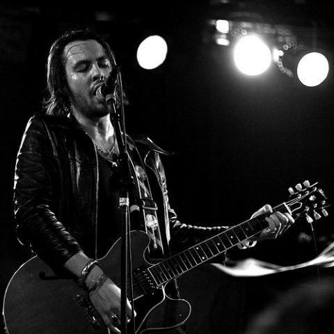 Coyle Girelli on stage in Detroit with The Chevin